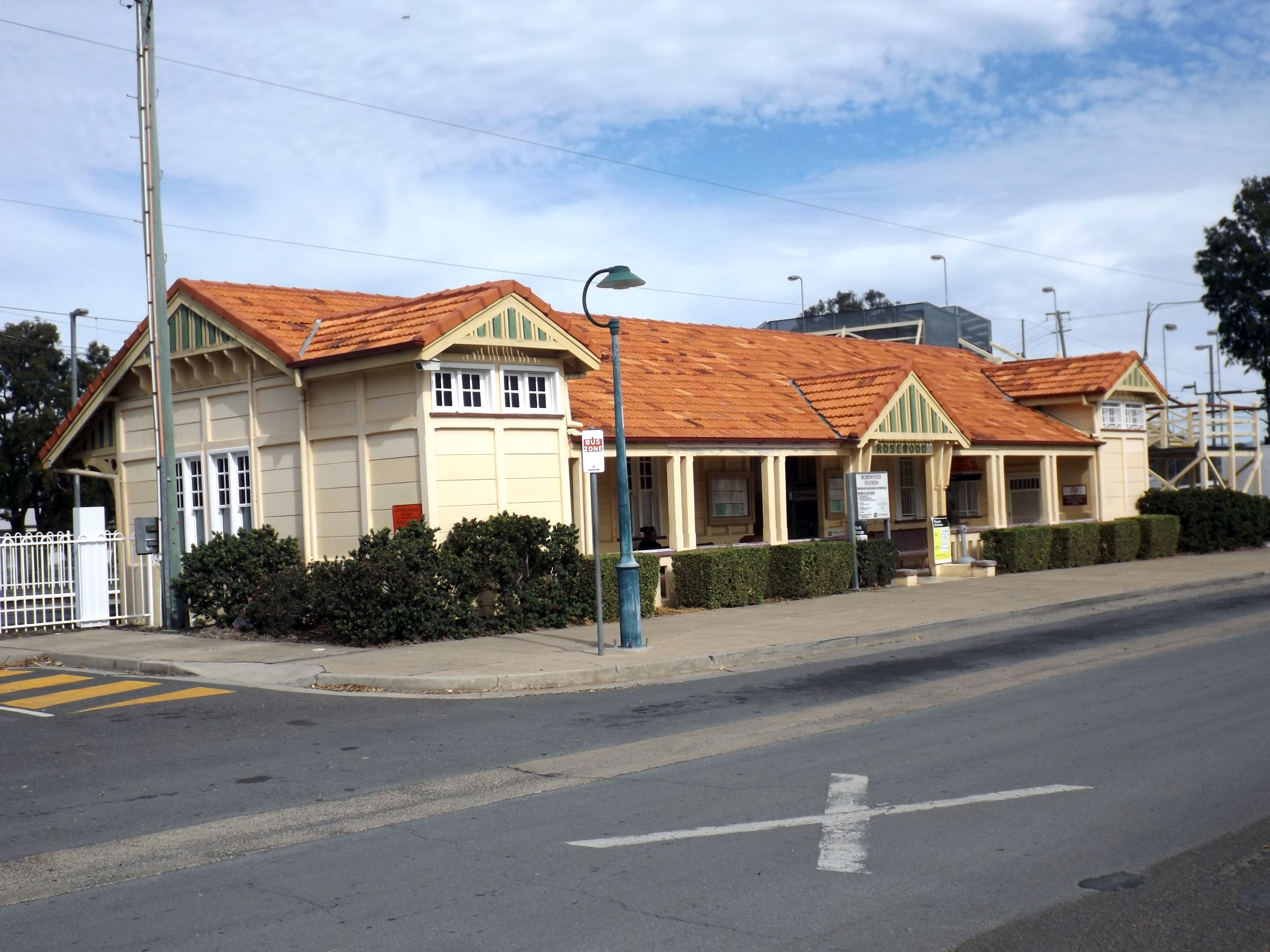 Photo of Rosewood railway station at Rosewood, Ipswich, Queensland, Australia.